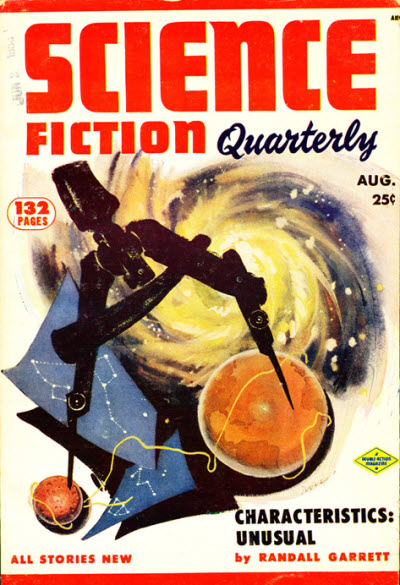 Cover, Science Fiction Quarterly, August 1953